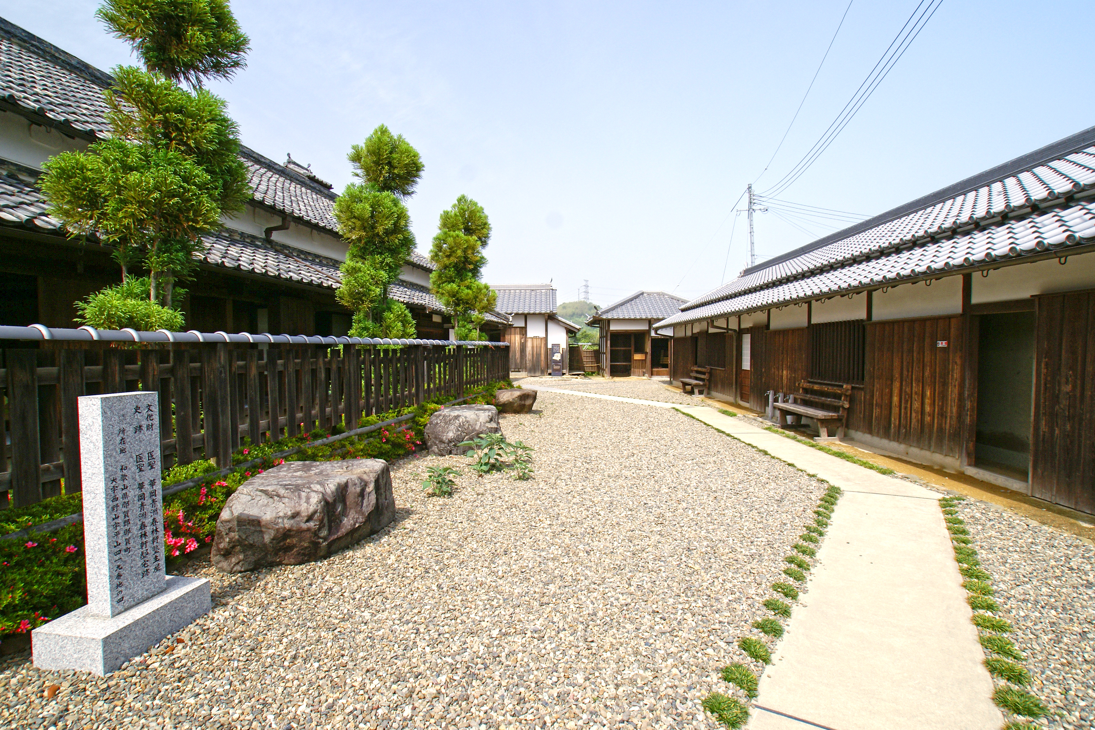 Shunrinken in Kinokawa, Wakayama prefecture, Japan